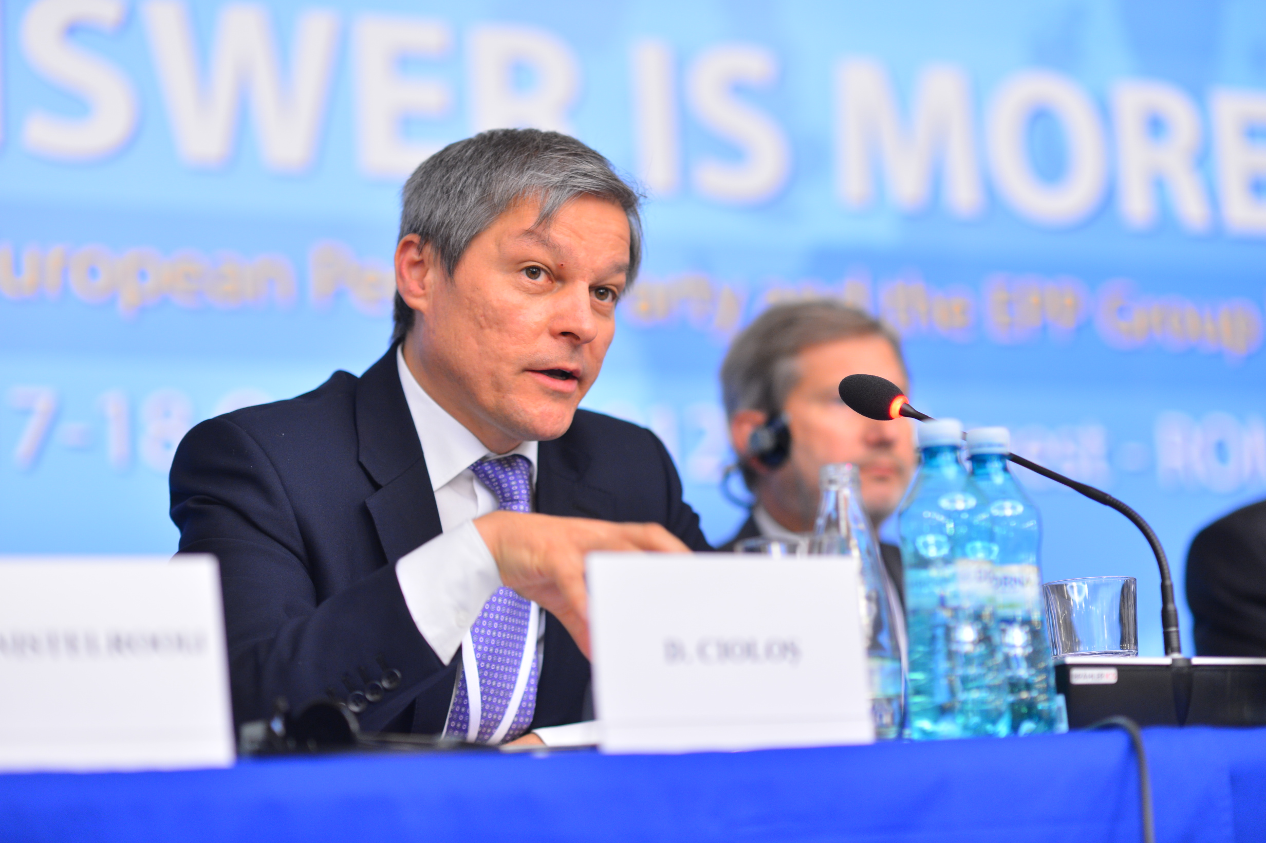 EPP_Congress_2187